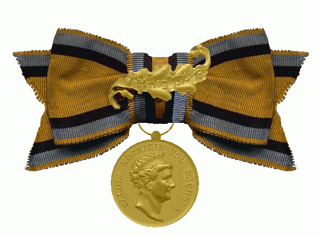 Carola Medal of Saksen